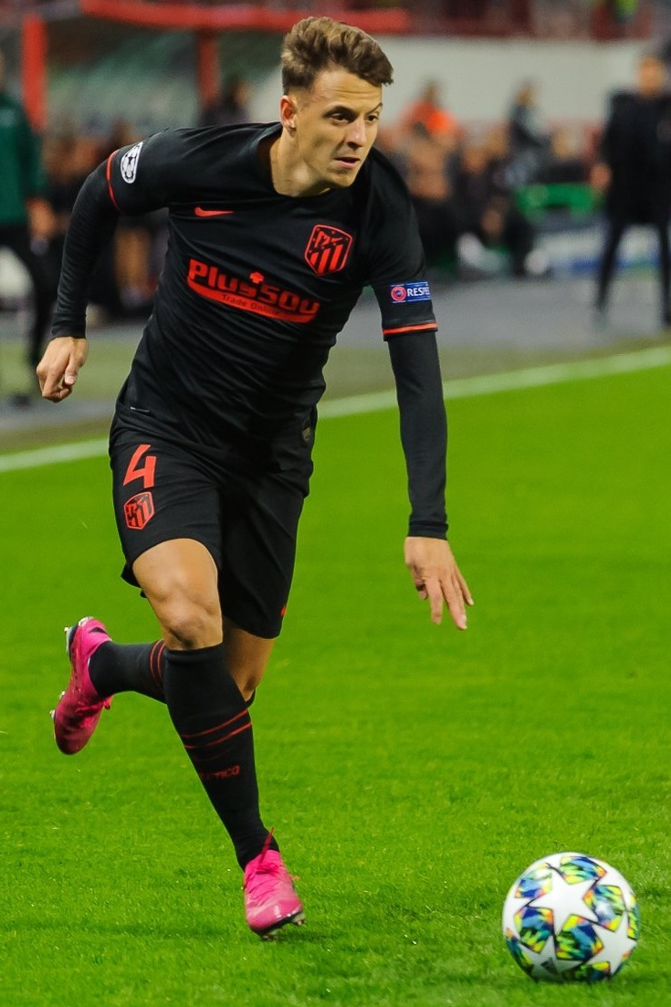 Santiago Arias with Atlético Madrid in a Champions League game against FC Lokomotiv Moscow.